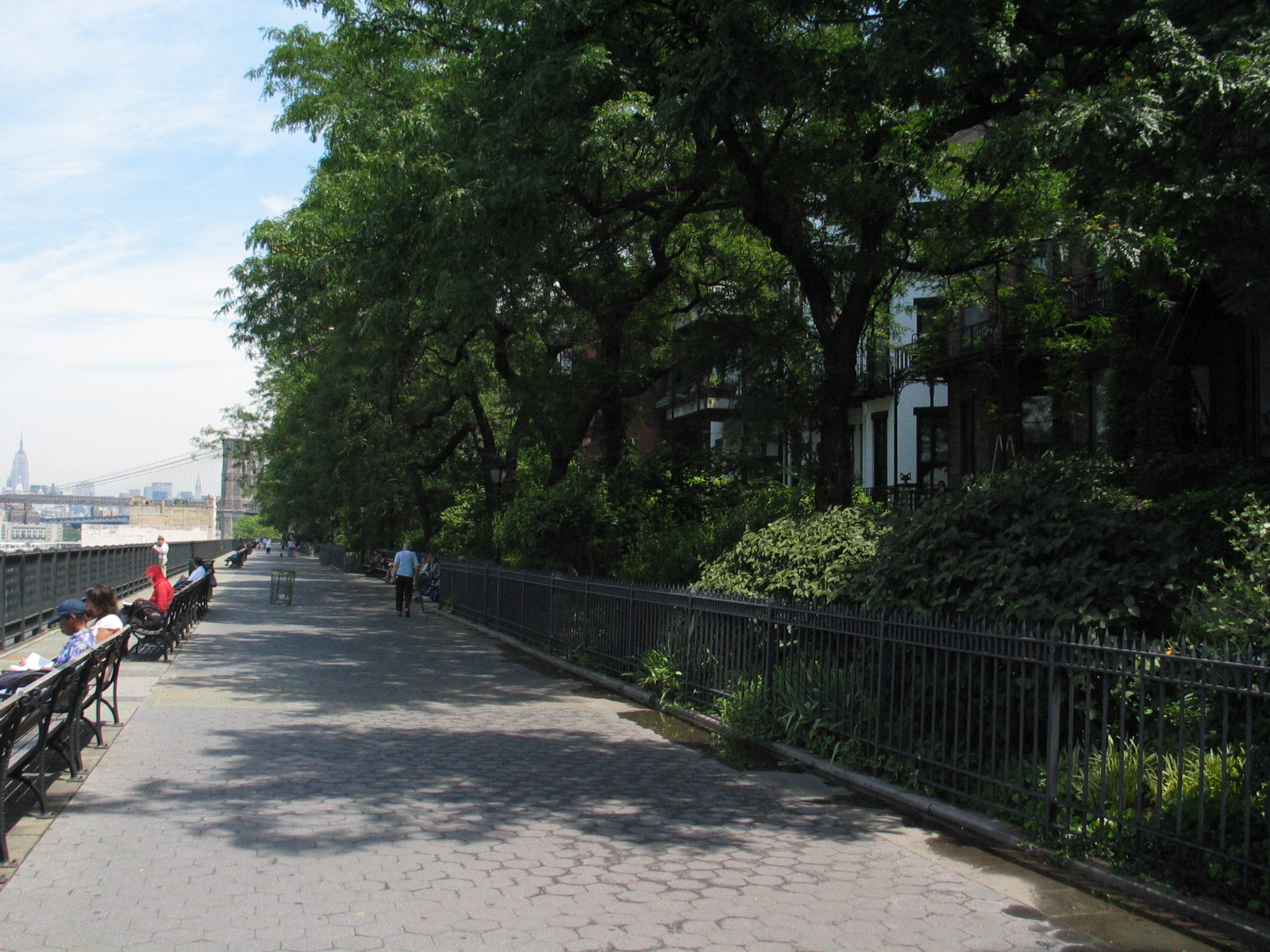 Brooklyn Heights Promenade. See also File:PromenadeSEats.JPG